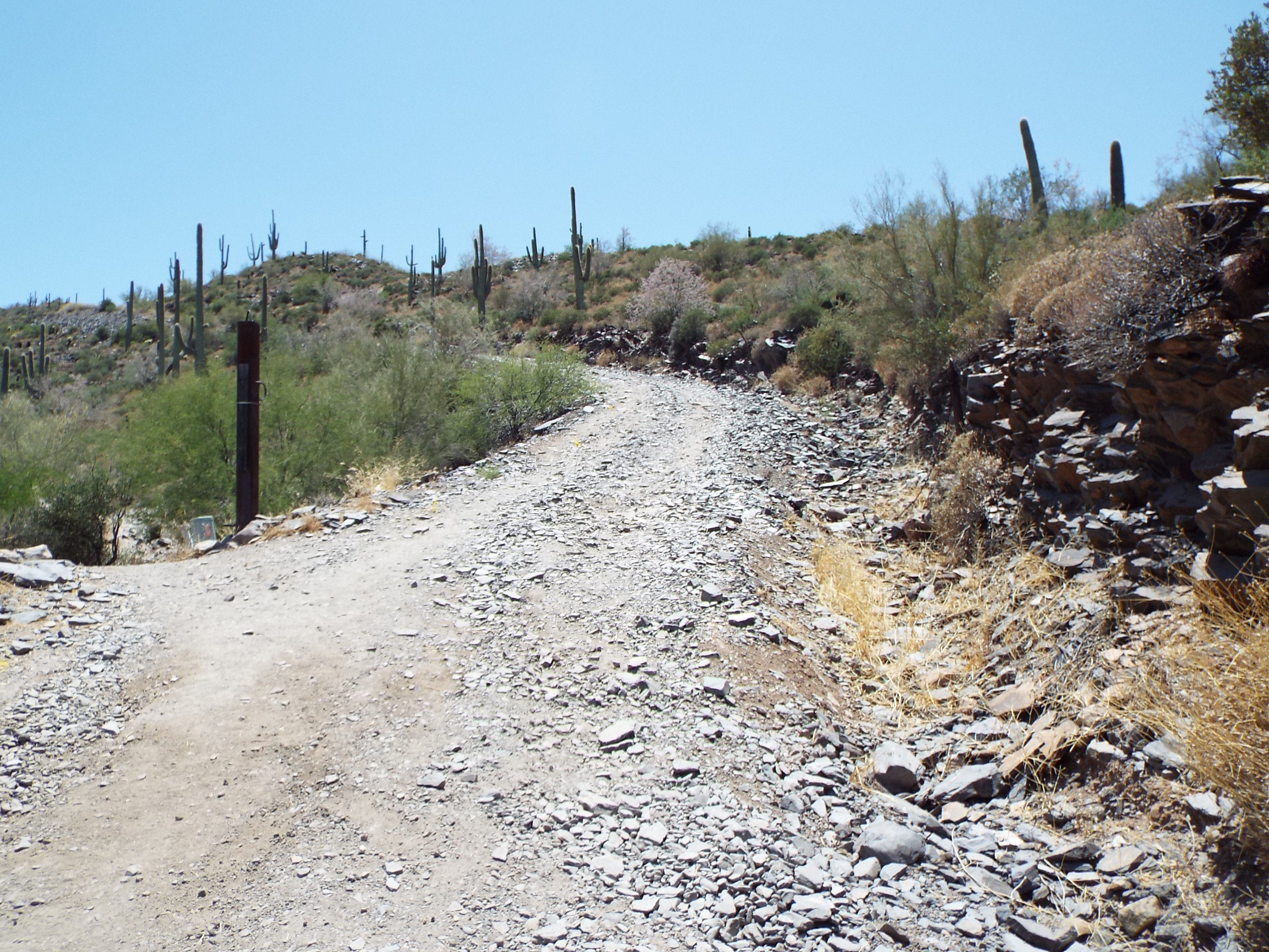 Part of what remains of the historic 1865 Stoneman Military Trail in the Black Mountains of Cave Creek Arizona.